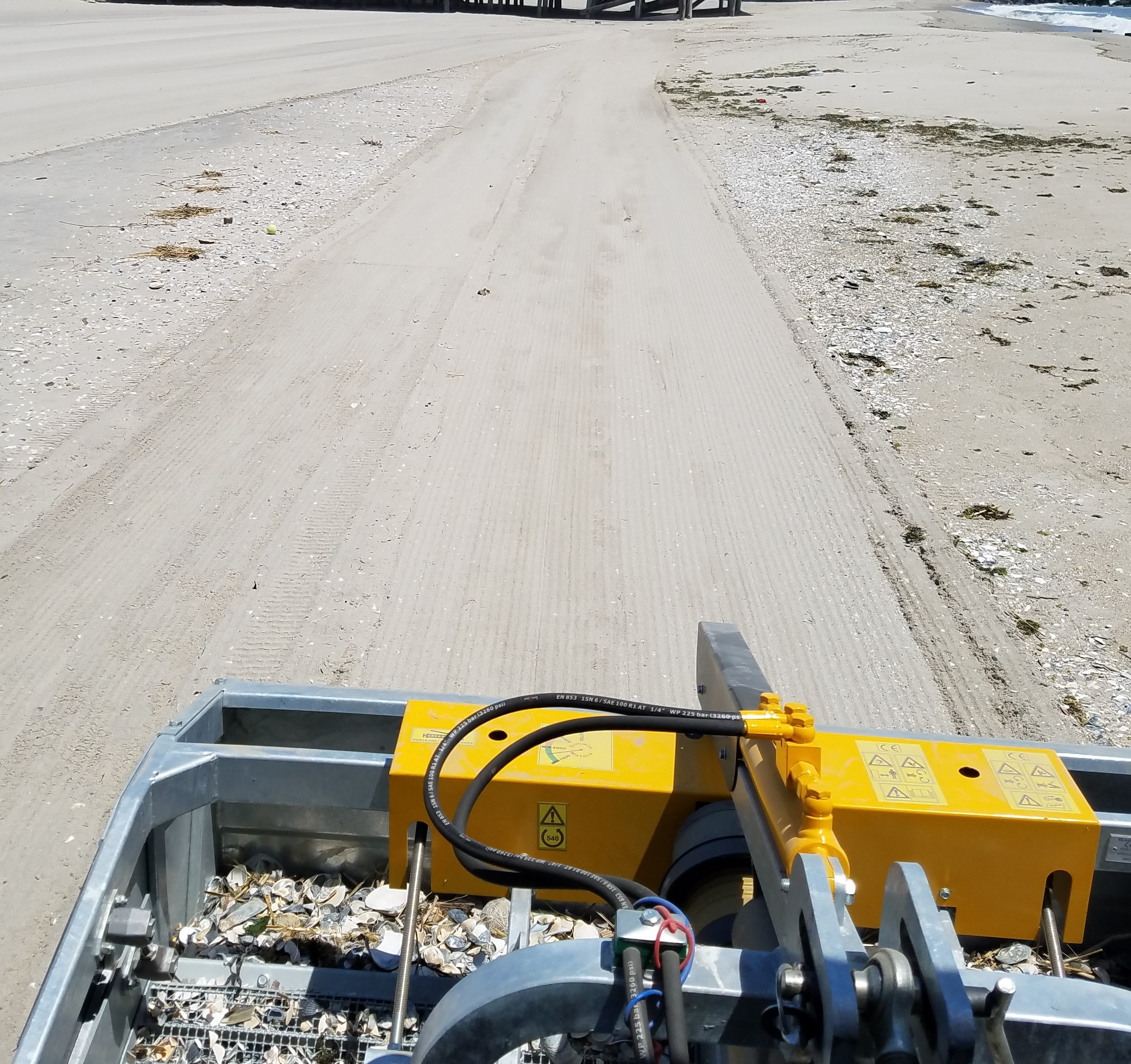 Showing mechanical beach cleaning with tractor attached machine